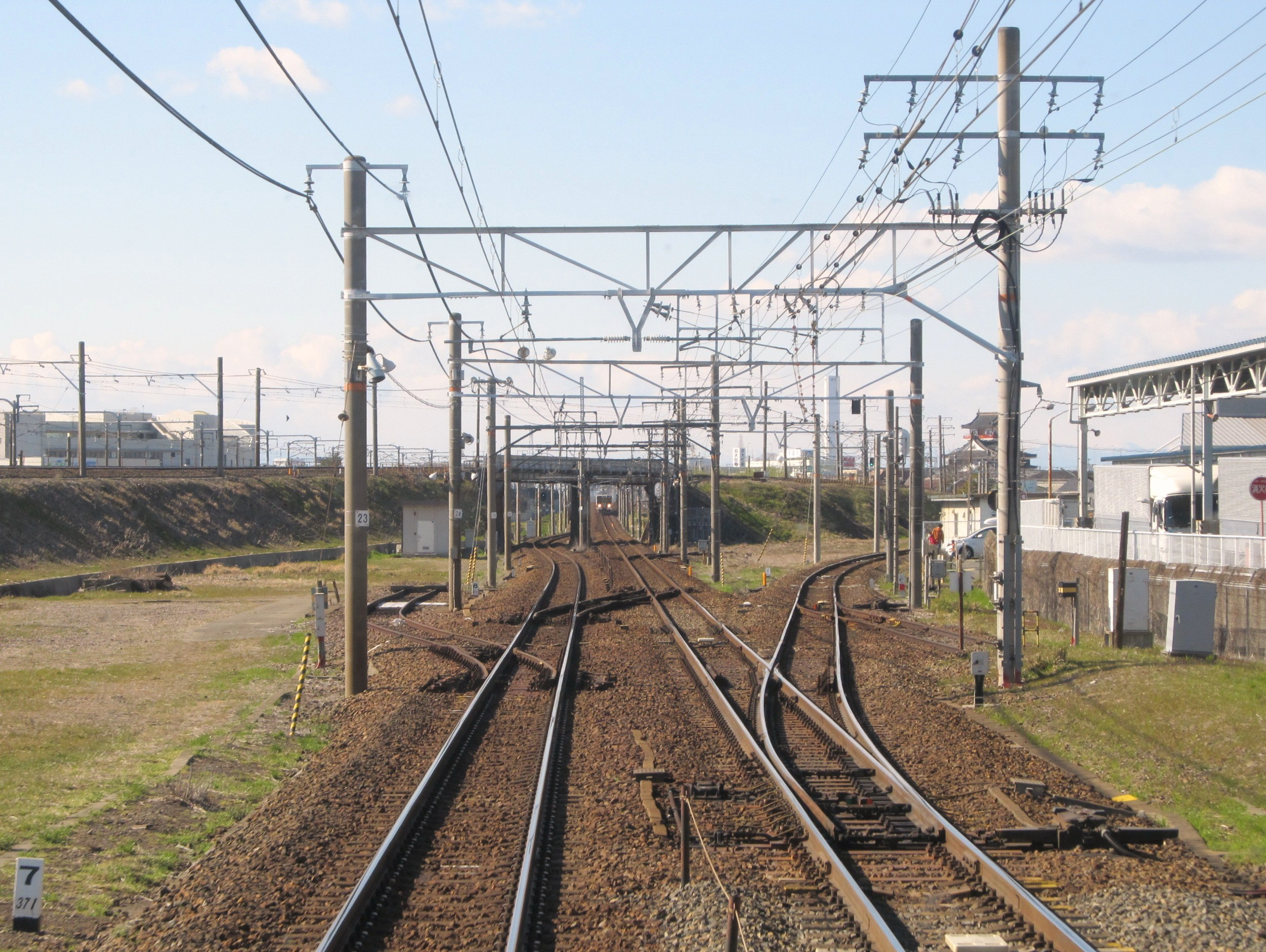 Central Japan Railway Tōkaidō Line Gojōgawa Signal Box